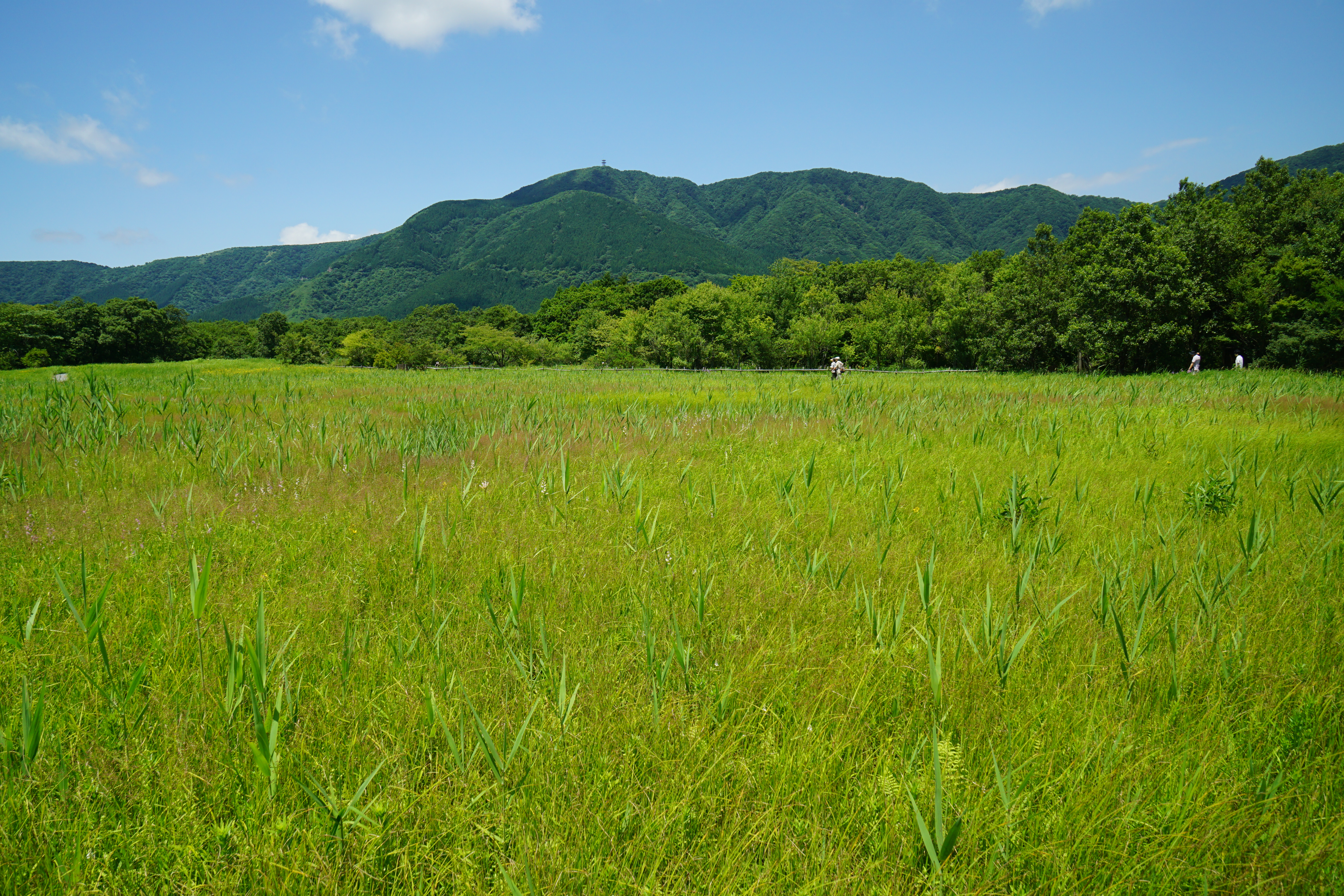 Hakone Botanical Garden of Wetlands in Hakone, Kanagawa prefecture, Japan